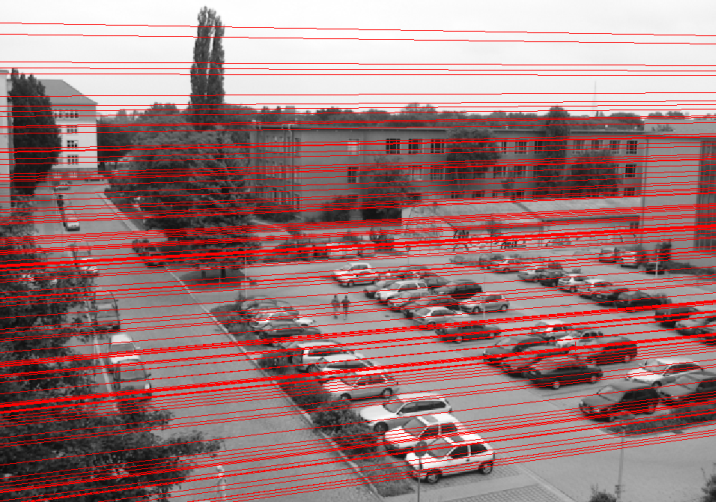 Epipolar lines of characteristic points, computed from the epipolar equation